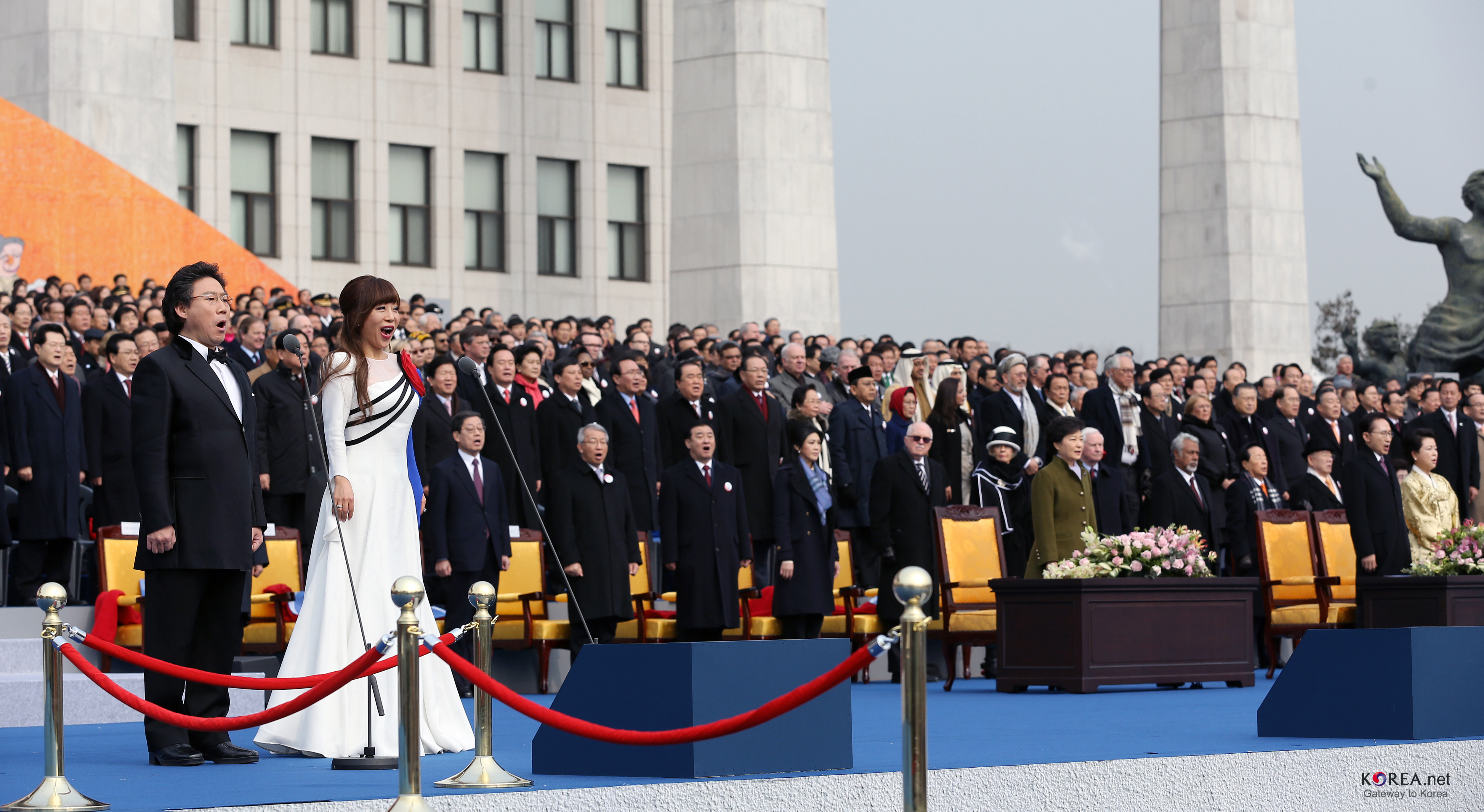 The inauguration ceremony for Park Geun-hye, South Korea's 18th, and first female, President.